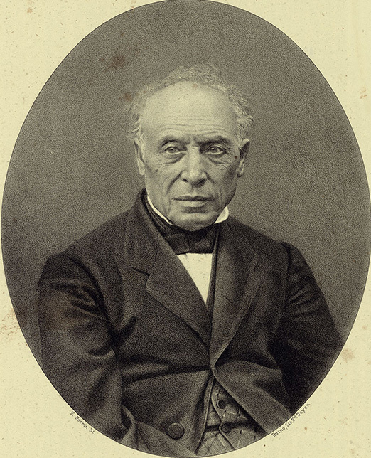 Portrait of Pietro Antonio Coppola, composer (1793-1877), before 1885.